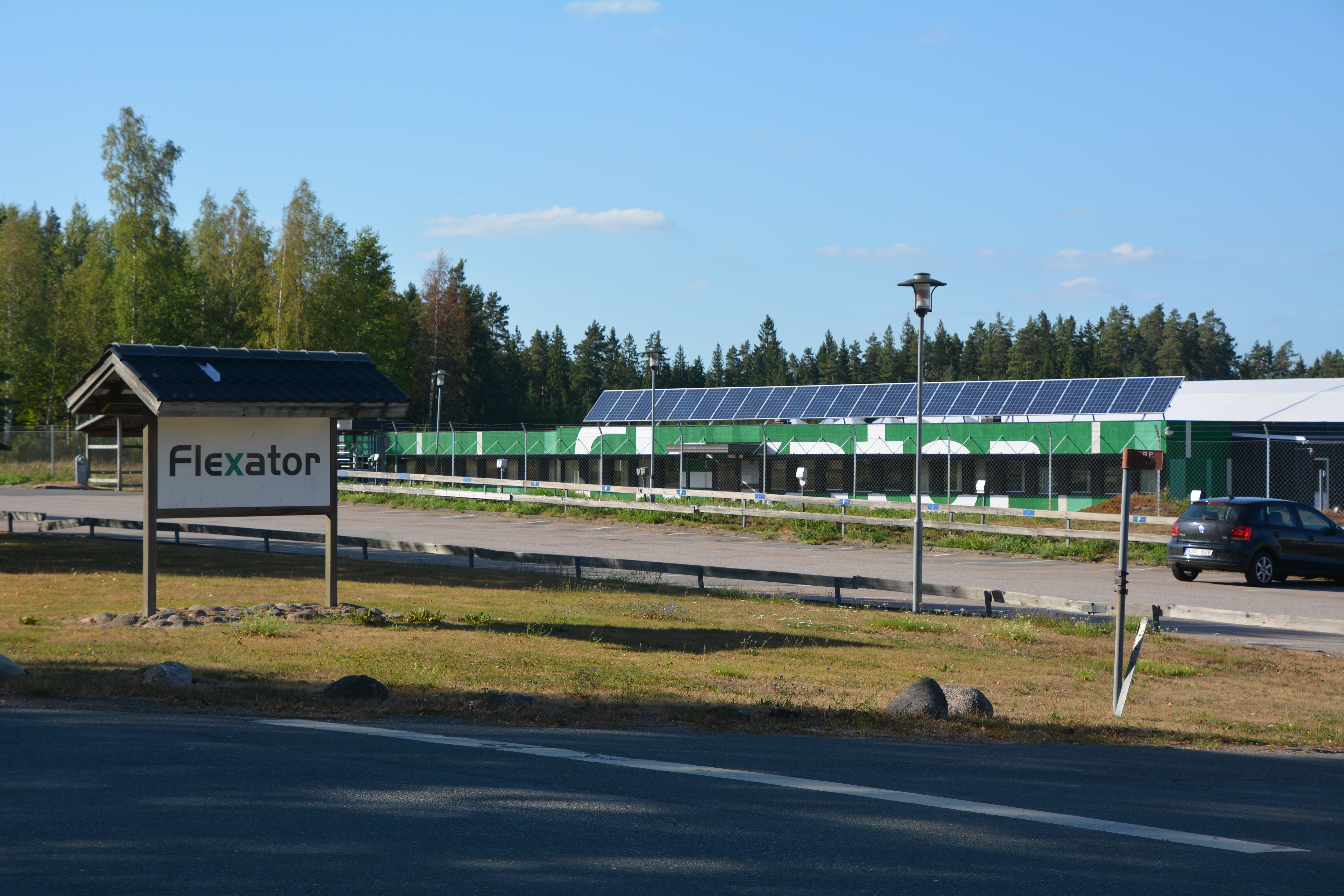 Flexator, Anneberg